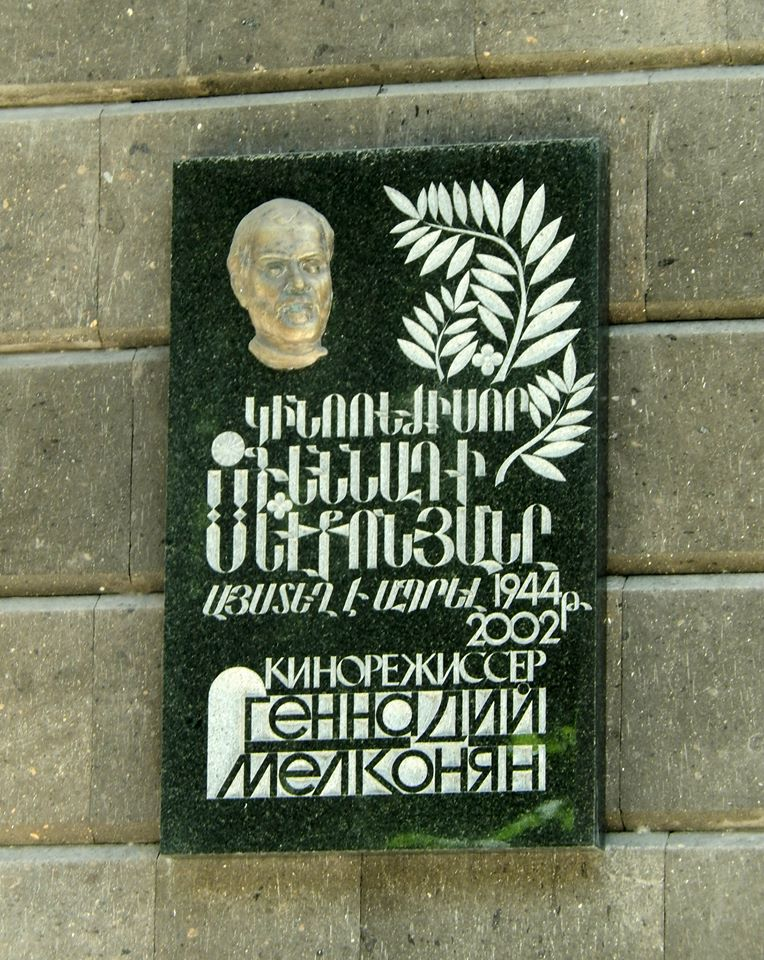 Genadi Melkonyan Plaque in Yerevan Arami 64